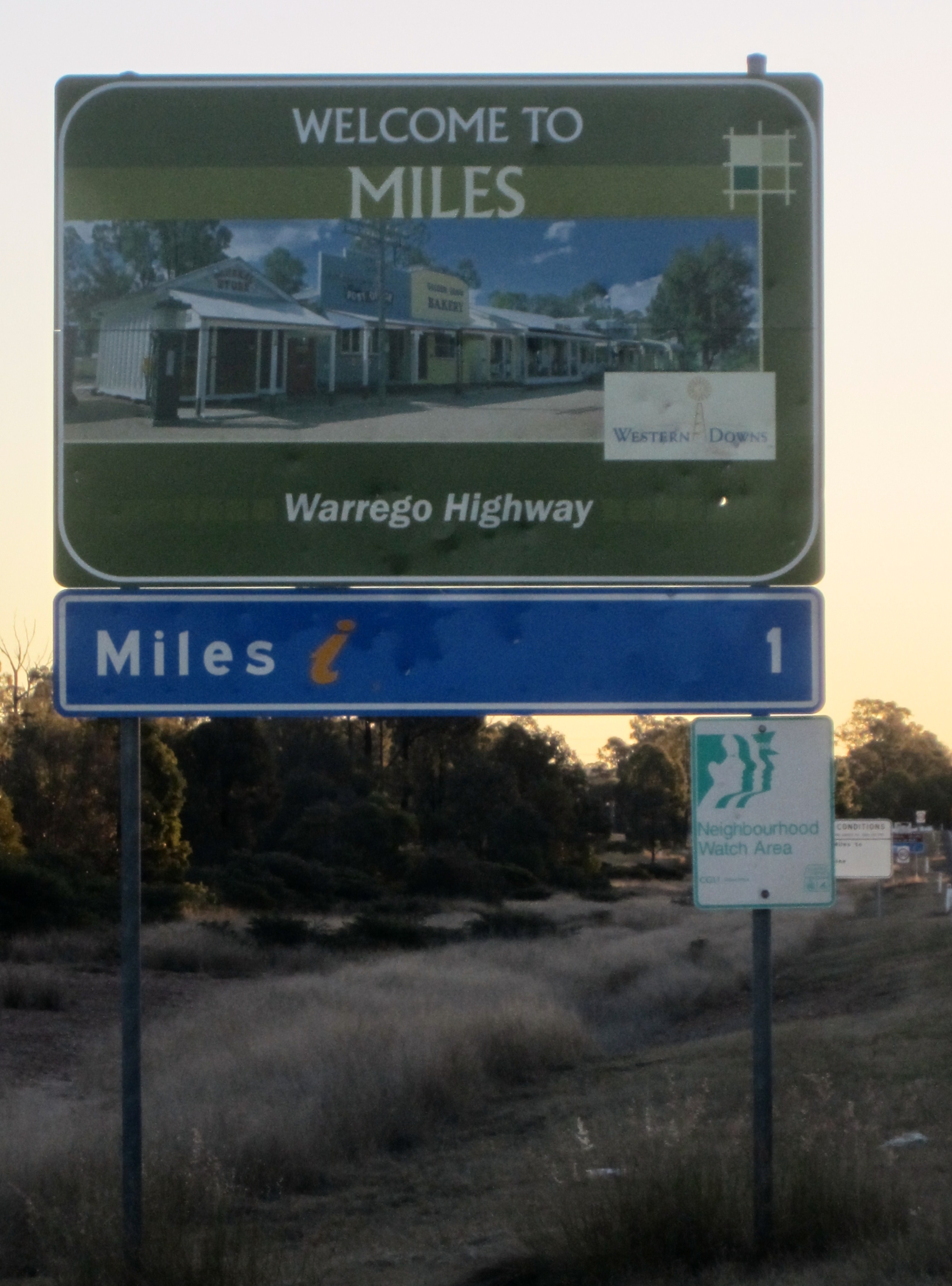 A sign welcoming visitors to Miles, Queensland as the are approaching the town westwards on the Warrego Highway.